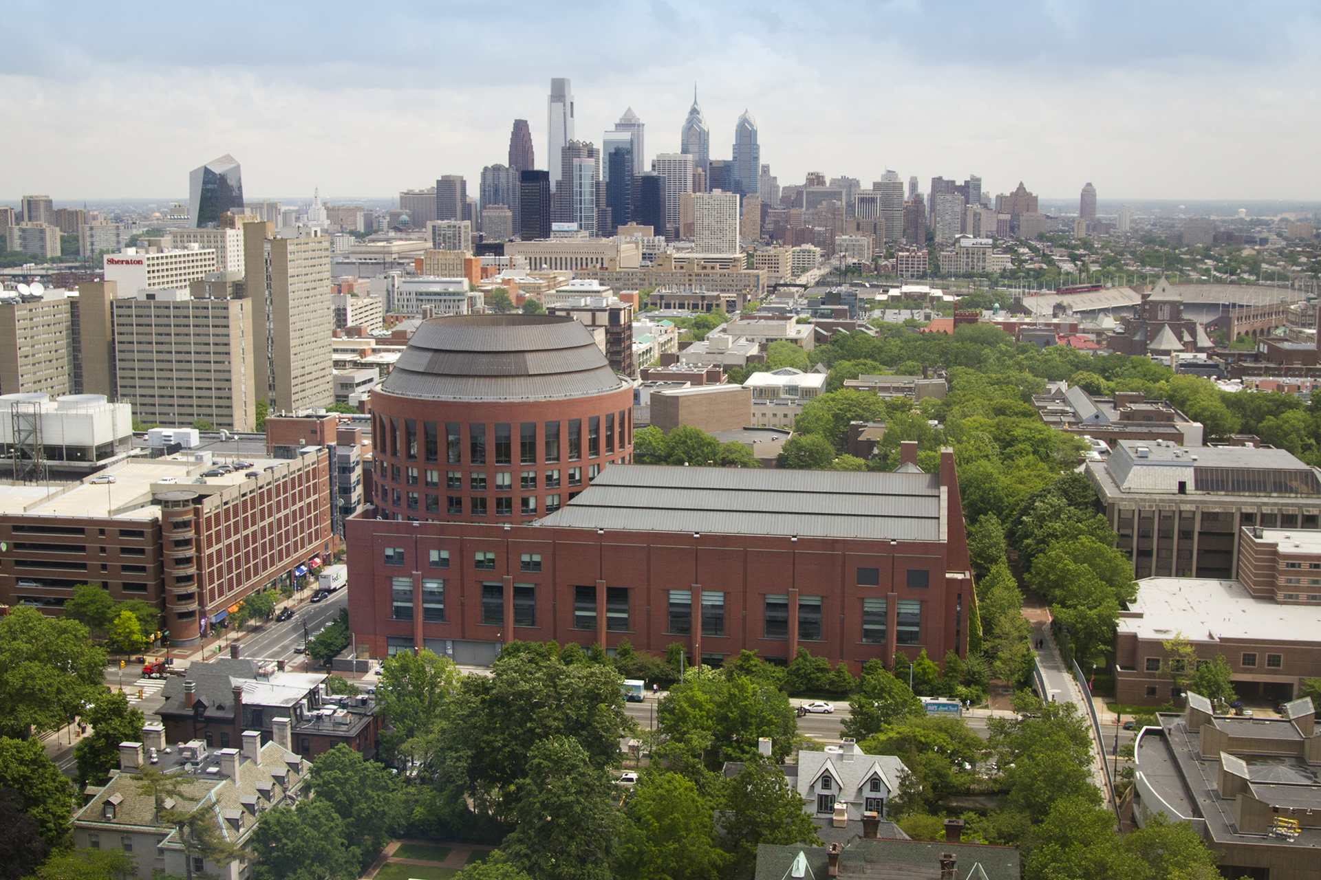 Huntsman Hall at the University of Pennsylvania